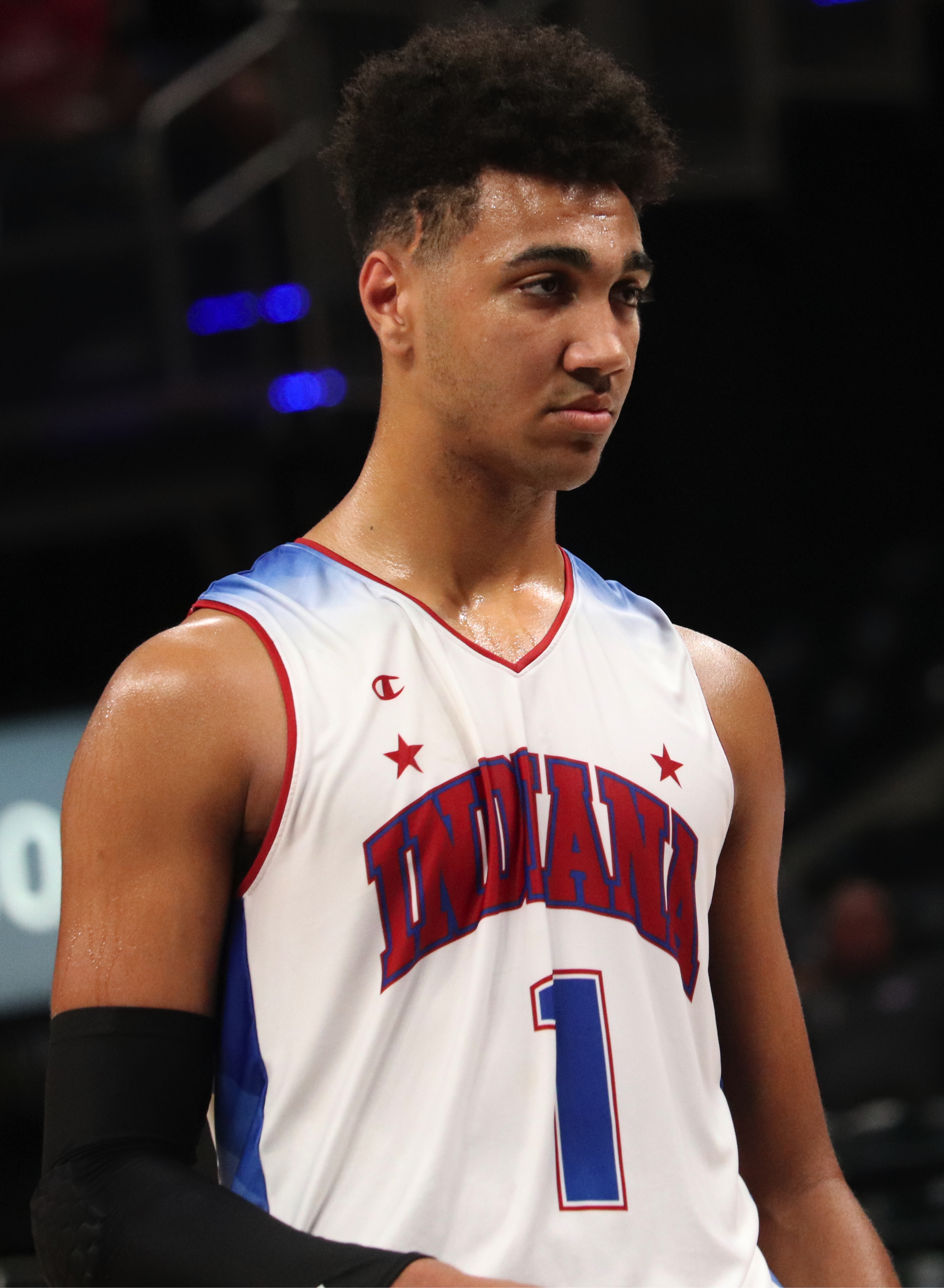 Trayce Jackson-Davis